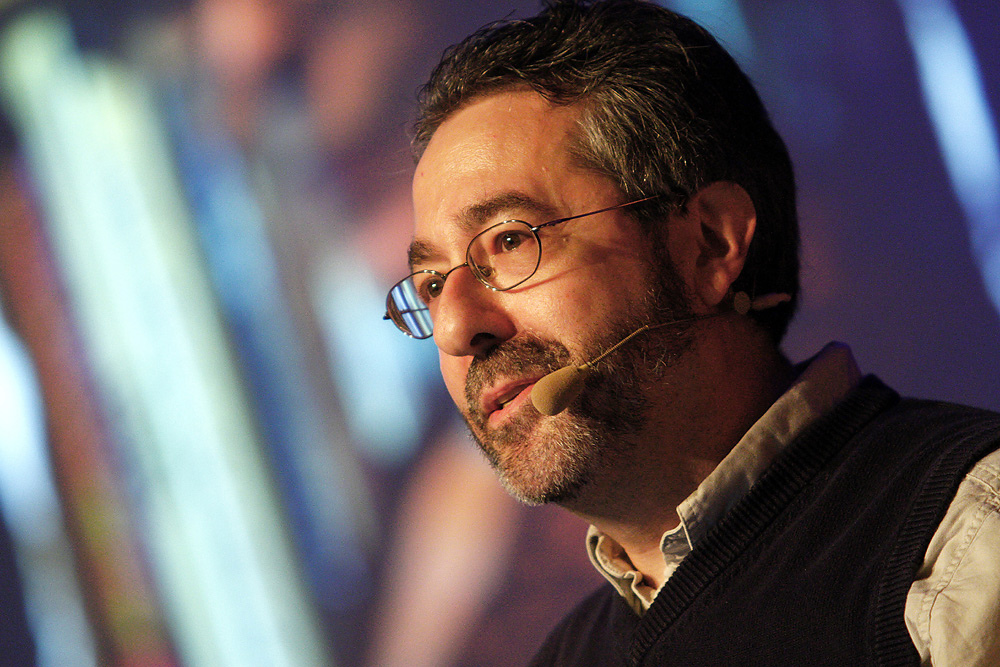 Photographer: Dennis Stachel for GDC Europe Credit/Copyright: GDC Europe